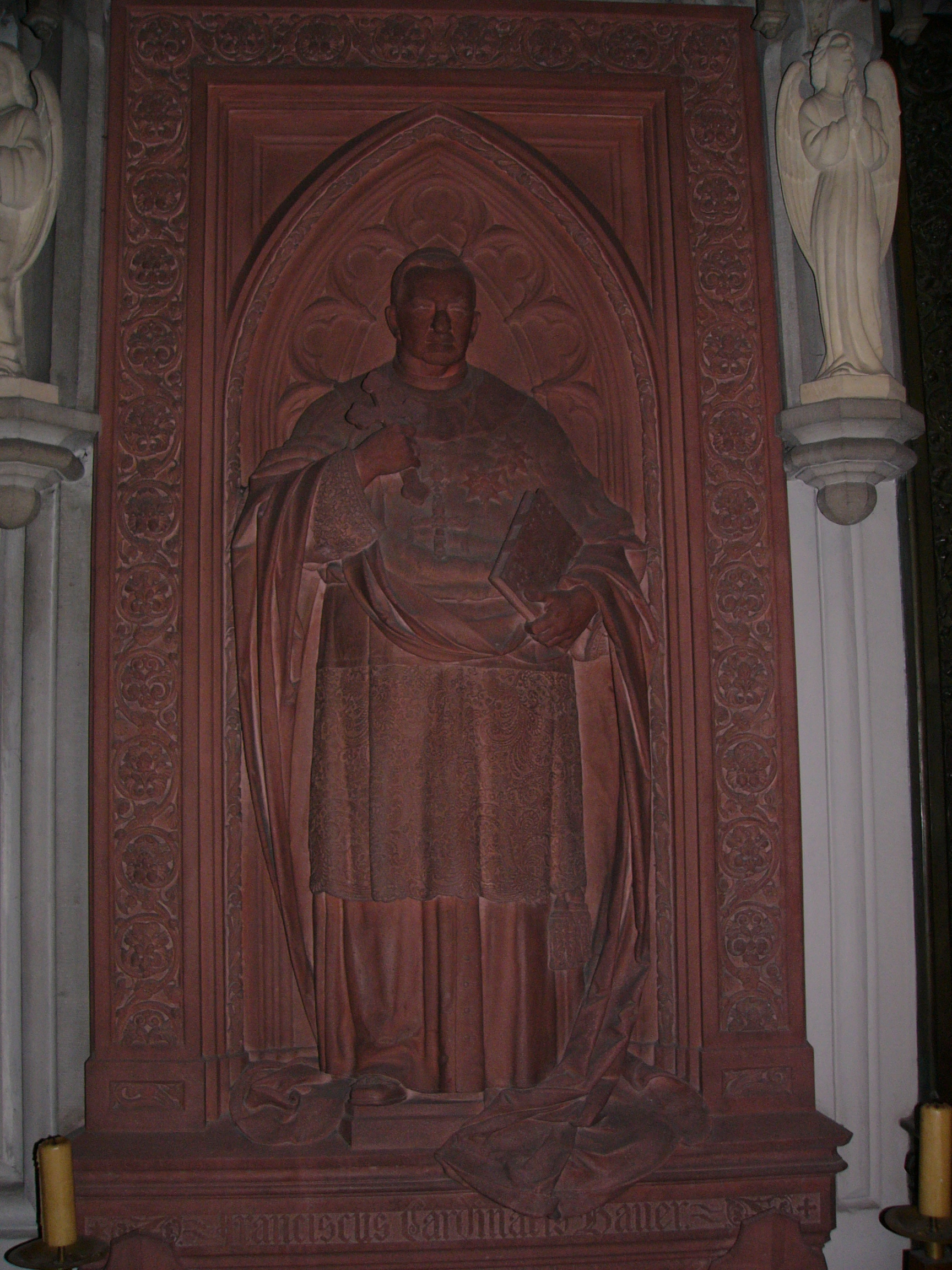 Tombstone of František Saleský Bauer in St. Wenceslaus cathedral in Olomouc (Czech Republic).